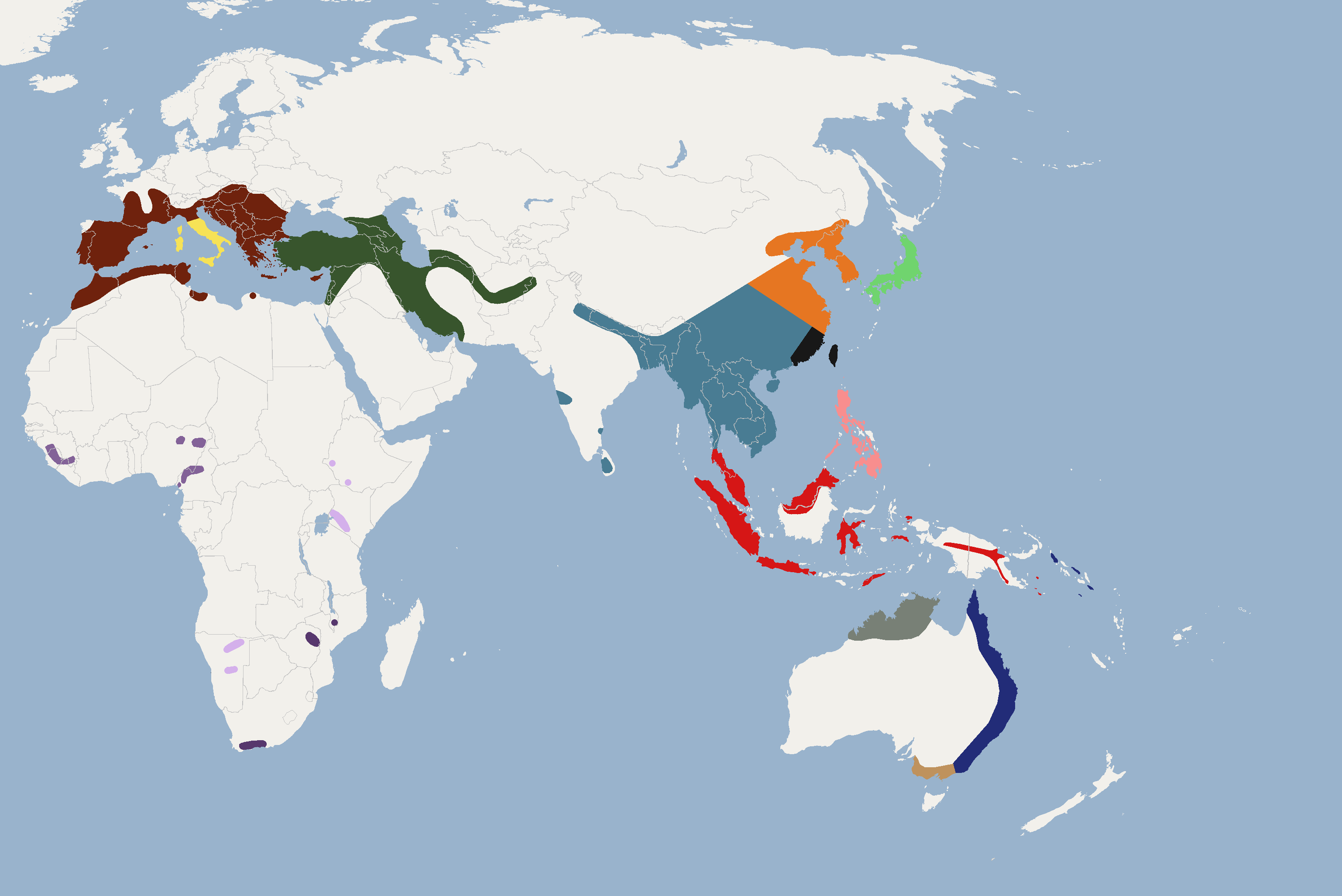 According to Aulagnier & al., 2011, Happold & Happold, 2013, Smith & Xie, 2008, Francis, 2008, Menkhorst & KNight, 2001 and Flannery, 1995.